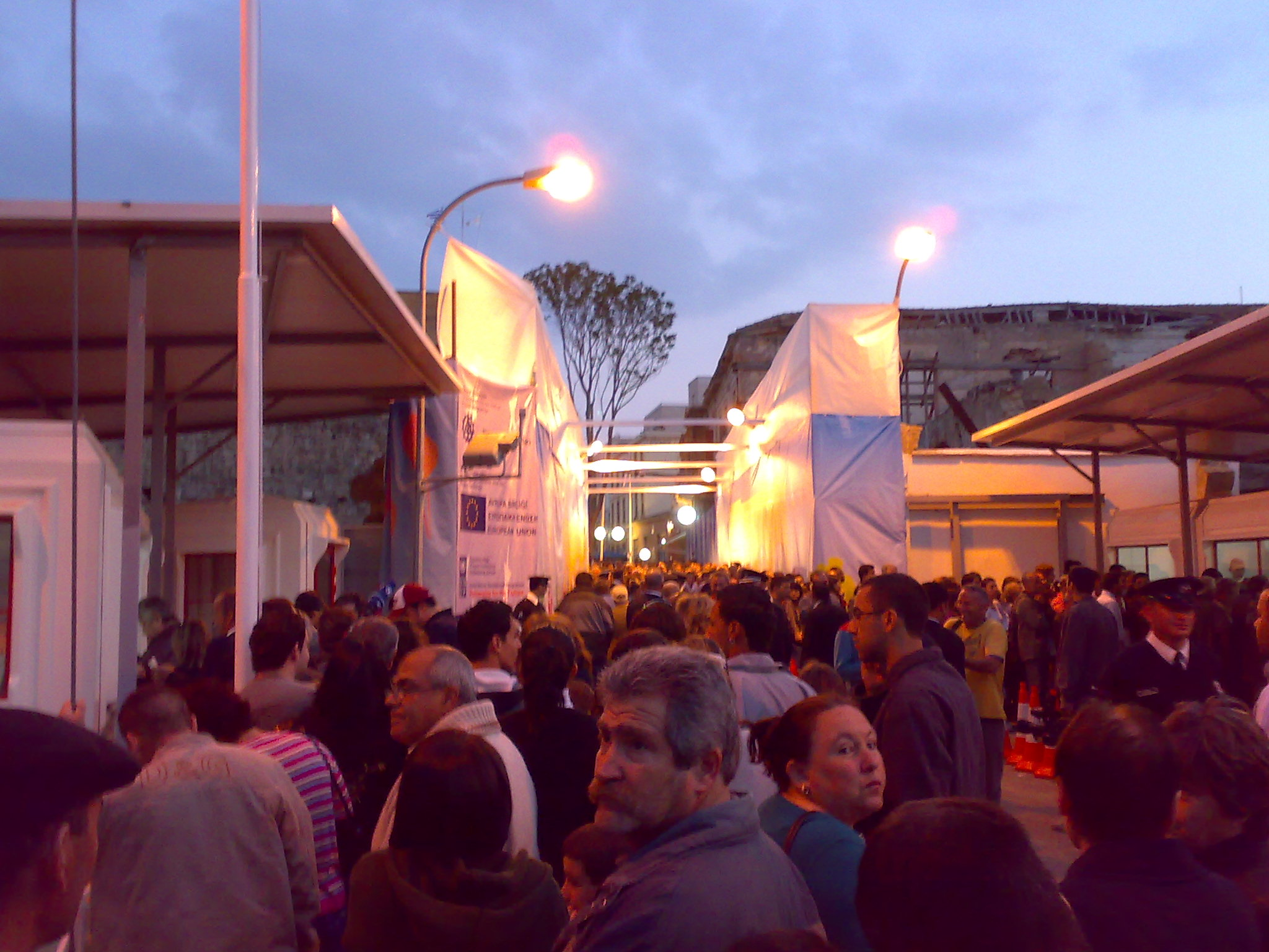 Crossing gate at Ledra Street on the day of its opening